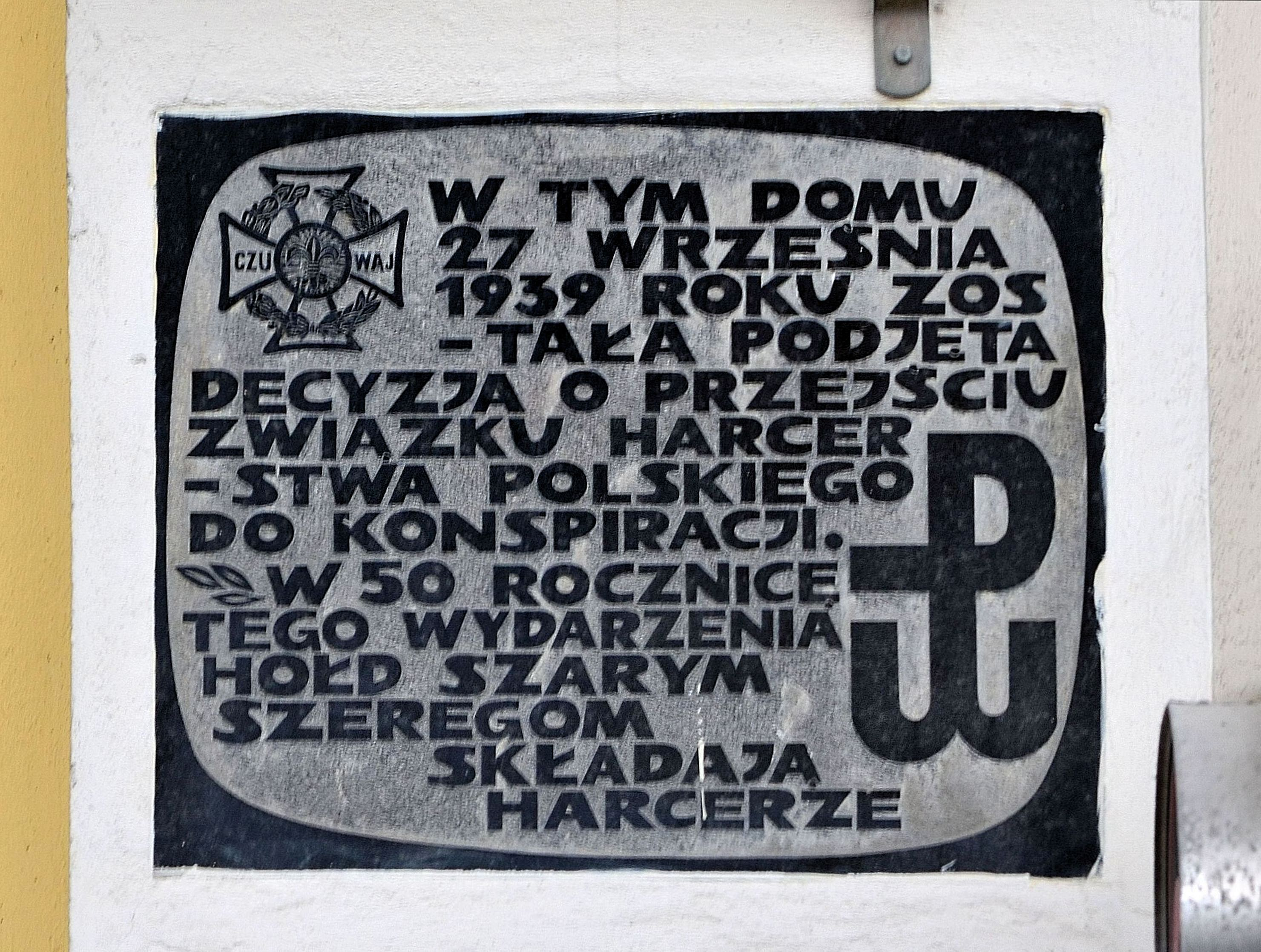 Plaque commemorating the establishment of Grey Ranks at 12 Noakowskiego Street in Warsaw